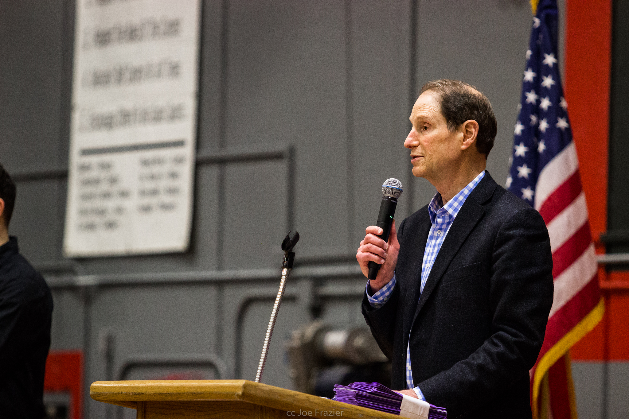 Town Hall - Ron Wyden, Multnomah County Feb 25, 2017 David Douglas H.S., Portland, OR